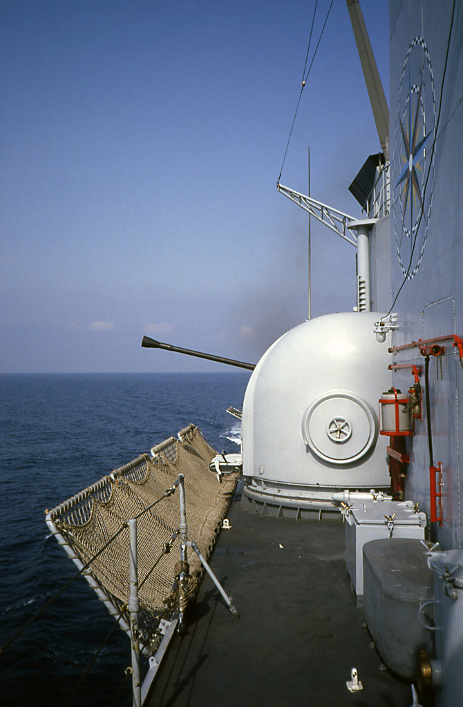 Turret of the Dardo CIWS system onboard Italian Navy frigate Grecale (F571), 1985